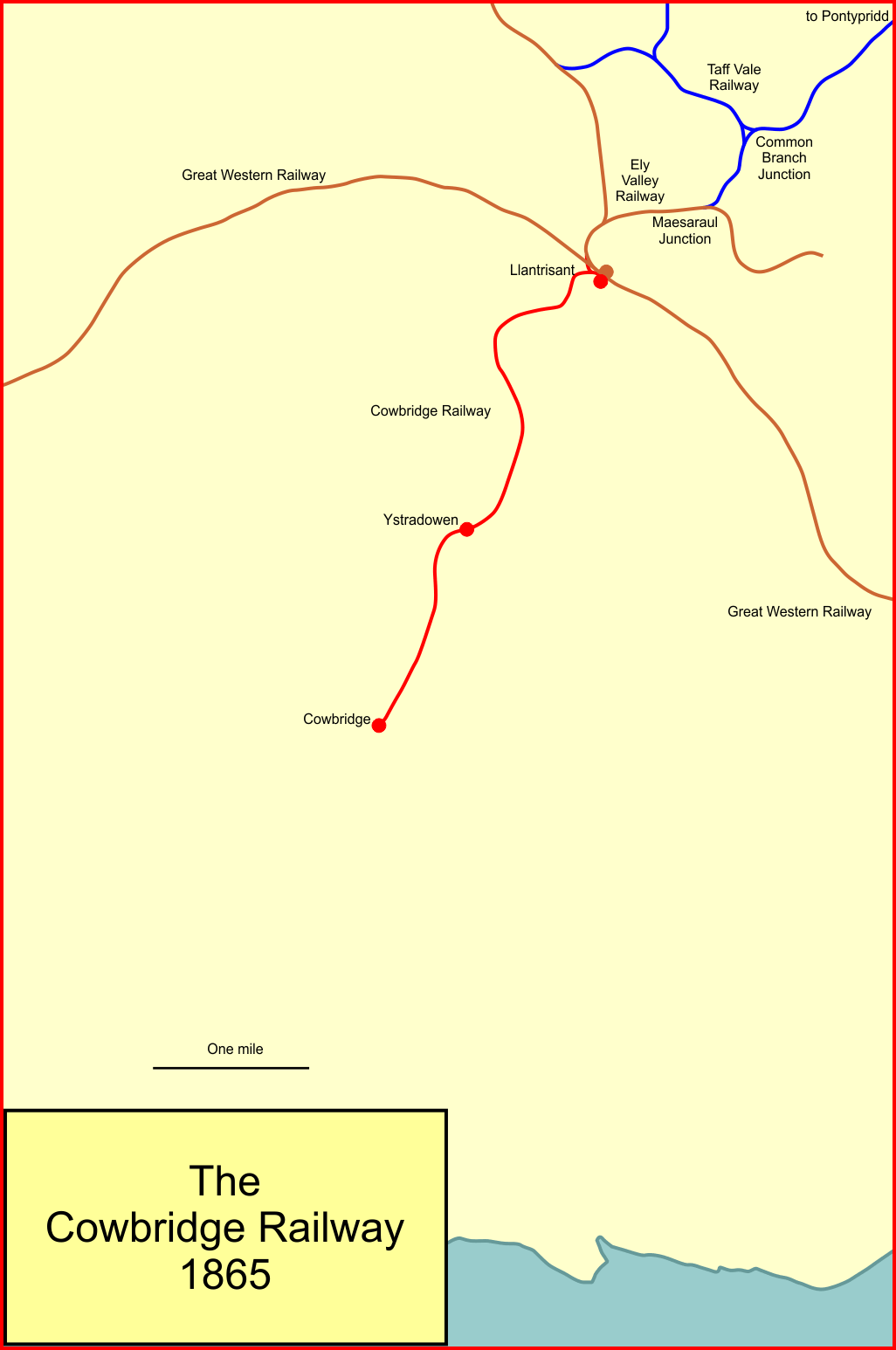 System map of the Cowbridge Railway, Wales